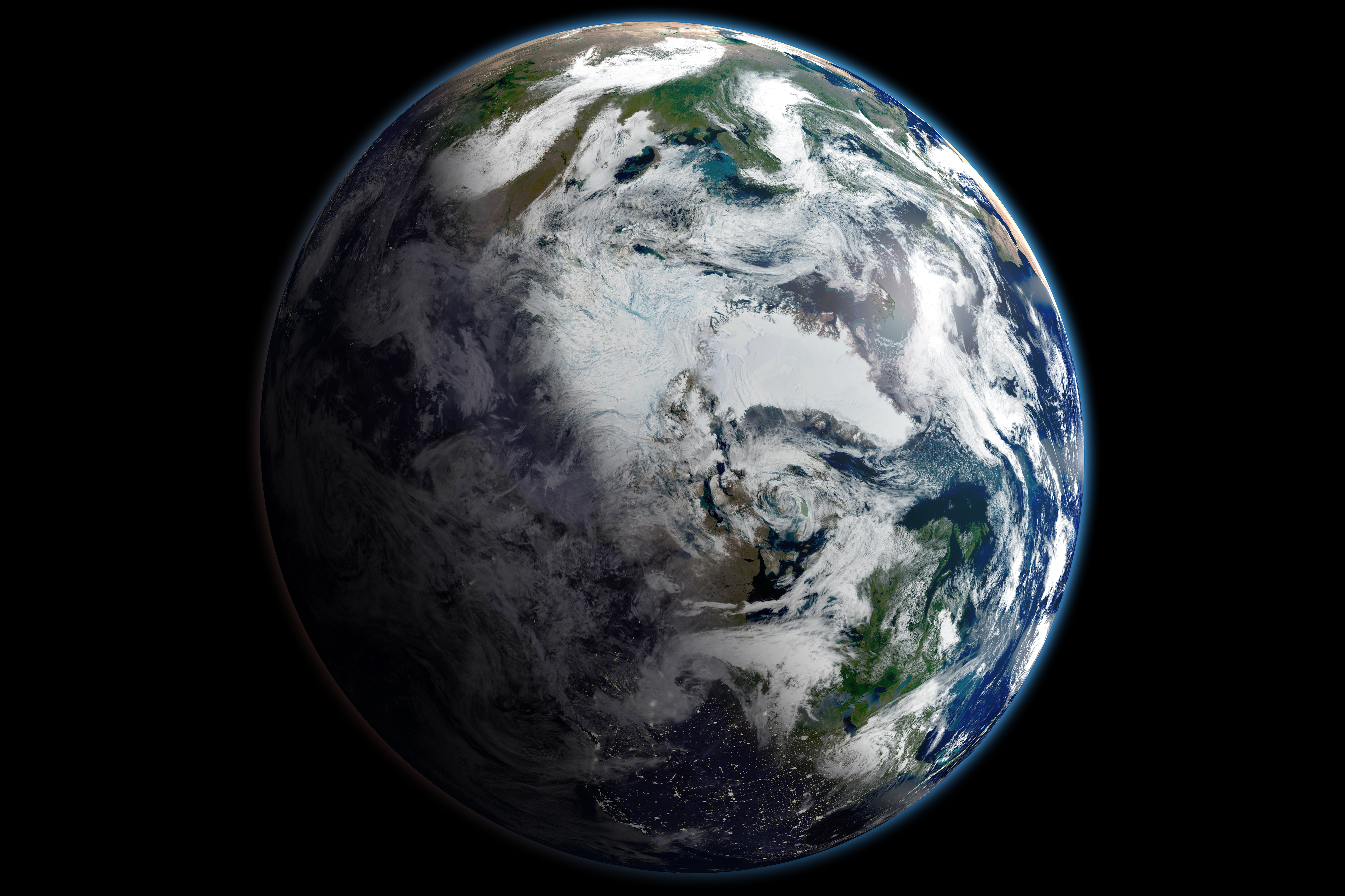 Satellite-based view of the Arctic. The images for this scene were captured on September 2, 2012, by the Visible Infrared Imaging Radiometer Suite (VIIRS) on the Suomi NPP satellite. The composite was compiled from 14 orbits of the satellite and multiple imaging channels, then stitched together to blend the edges of each satellite pass. The record lowest minimum ever observed in the satellite record occurred on September 16, 2012, when sea ice plummeted to 3.41 million square kilometers (1.32 million square miles). This image shows the area two weeks earlier. The edges of the ice pack are reasonably visible, as are some fractured areas, but some details are obscured by clouds.